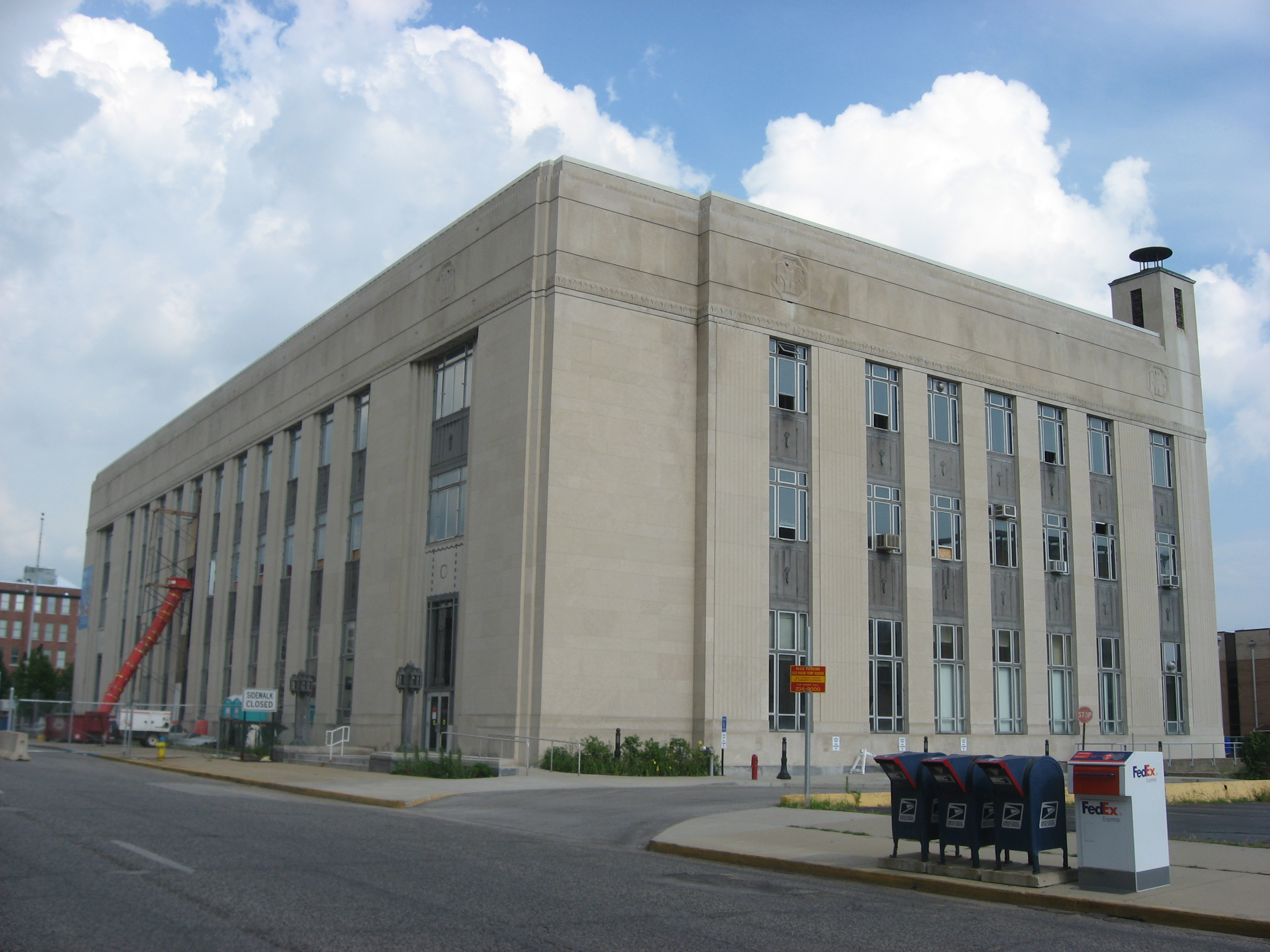 Front and western side of the Terre Haute Post Office and Federal Building, located at the junction of Seventh and Cherry Streets in Terre Haute, Indiana, United States. Built in 1932, it is listed on the National Register of Historic Places.